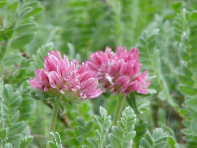 Species: Anthyllis montana jacquinii Family: Fabaceae Image No. 1